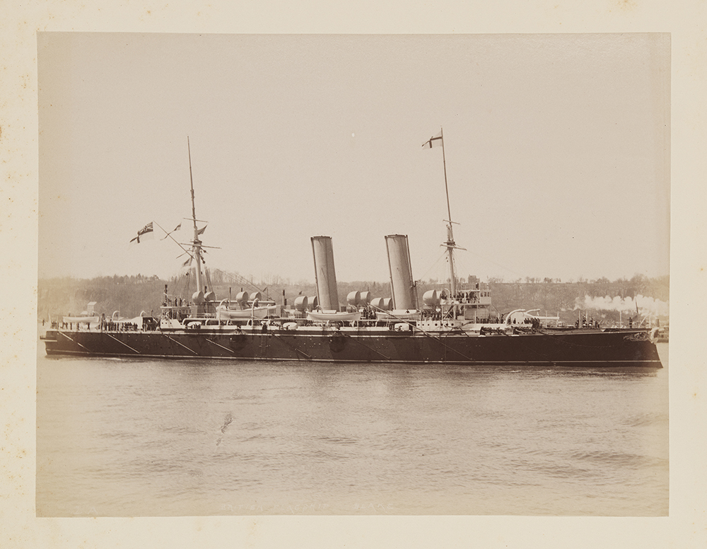 Title: British flagship Blake Creator: Loeffler, 1864-1946 Date: April 27, 1893 Part Of: Columbian Naval Parade Place: New York Physical Description: 1 photographic print: albumen, part of 1 volume (48 albumen prints); 17 x 22 cm on 28 x 34 cm mount File: ag1982_0031_21_opt.jpg Rights: Please cite DeGolyer Library, Southern Methodist University when using this file. A high-resolution version of this file may be obtained for a fee. For details see the web page. For other information, . For more information, View the full series: naval parade/field/all/mode/all/conn/and/cosuppress/ View North America: Photographs, Manuscripts, and Imprints